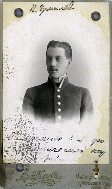 Nikolay Gumilyov, June or July 1906 Фотография Н. Гумилёва из коллекции Нью-Йоркской публичной библиотеки. Подпись на фотографии: ««Означенное на сей фотографической карточке (действительно) и означает личность сына статского советника Николая Степановича Гумилёва. 1906, июля 3 дня г. Царское Село. Пристав В (Сахаров)»